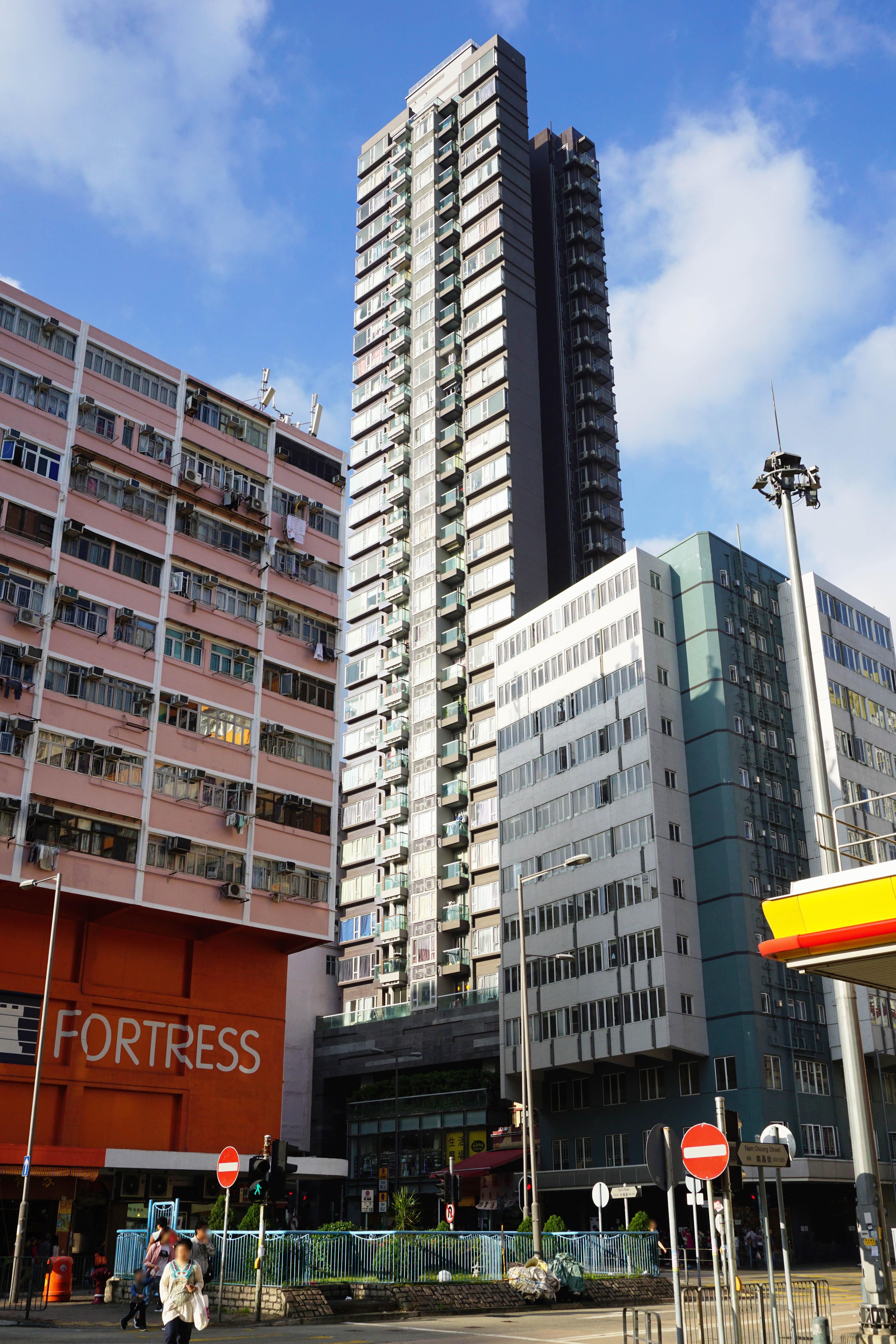 High Point in Sham Shui Po, Hong Kong.